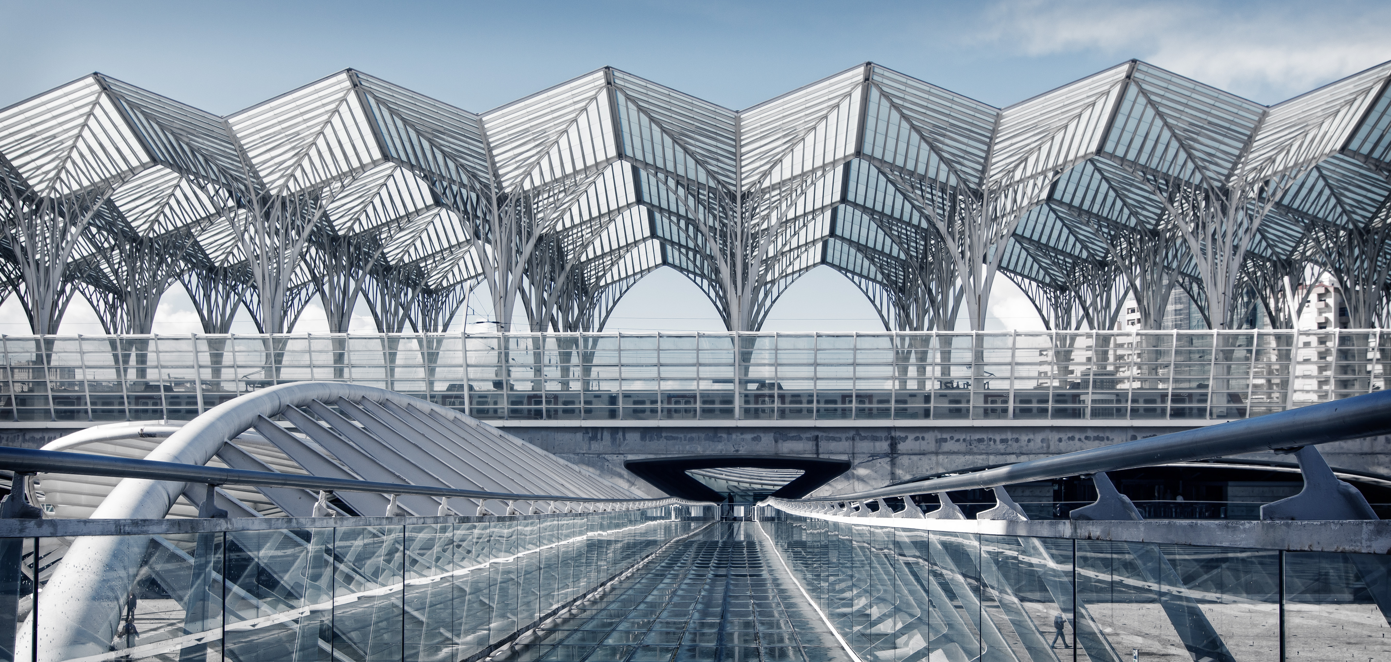 Gare do Oriente train station, Lisbon, Portugal